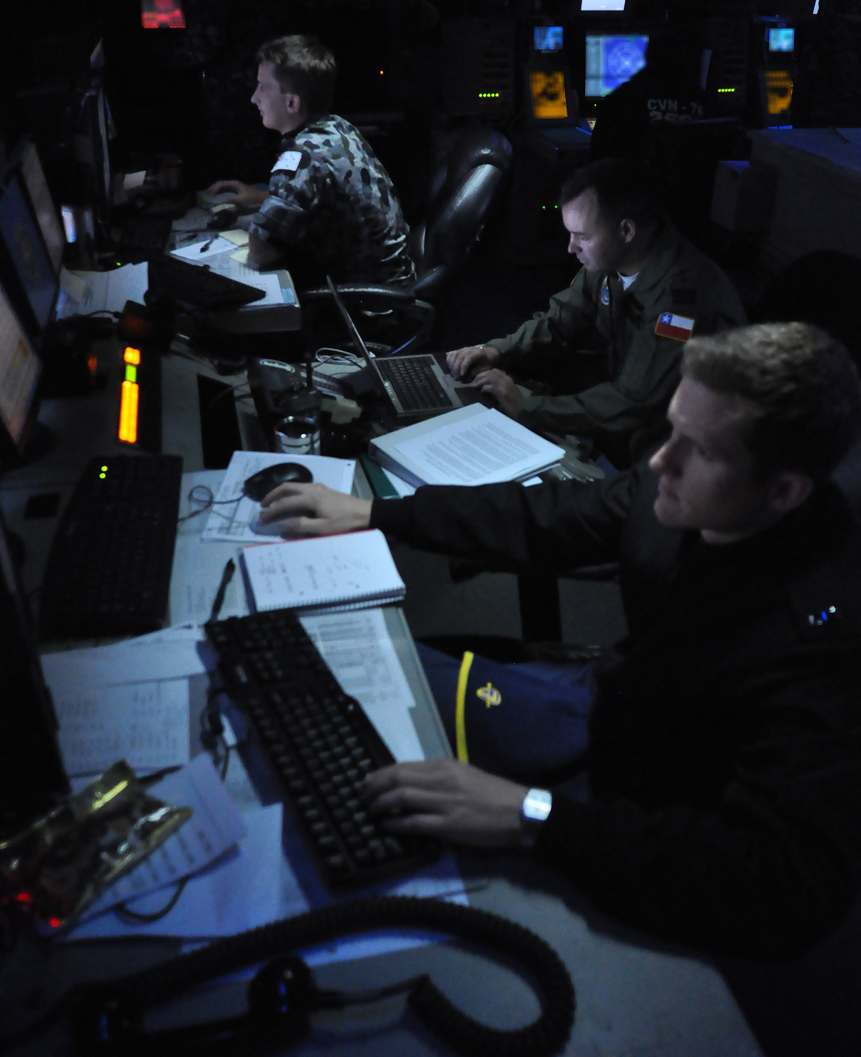 PACIFIC OCEAN (July 19, 2010) Royal Australian Navy Leading Seaman Livingston Harrison, foreground, U.S. Navy Lt. j.g. Joe Spence and Colombian Navy Lt. Cmdr. Anibal Limbo stand watch in Sea Combat Control aboard the aircraft carrier USS Ronald Reagan (CVN 76). Sea Combat Control is an international work center that manages surface and anti-submarine warfare. Ronald Reagan is underway participating in RIMPAC, a biennial, multinational exercise designed to strengthen regional partnerships and improve multinational interoperability. (U.S. Navy photo by Mass Communication Specialist 3rd Class Stephen M. Votaw/Released)